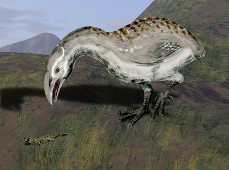 Aptornis otidiformis from the Pleistocene of New Zealand.